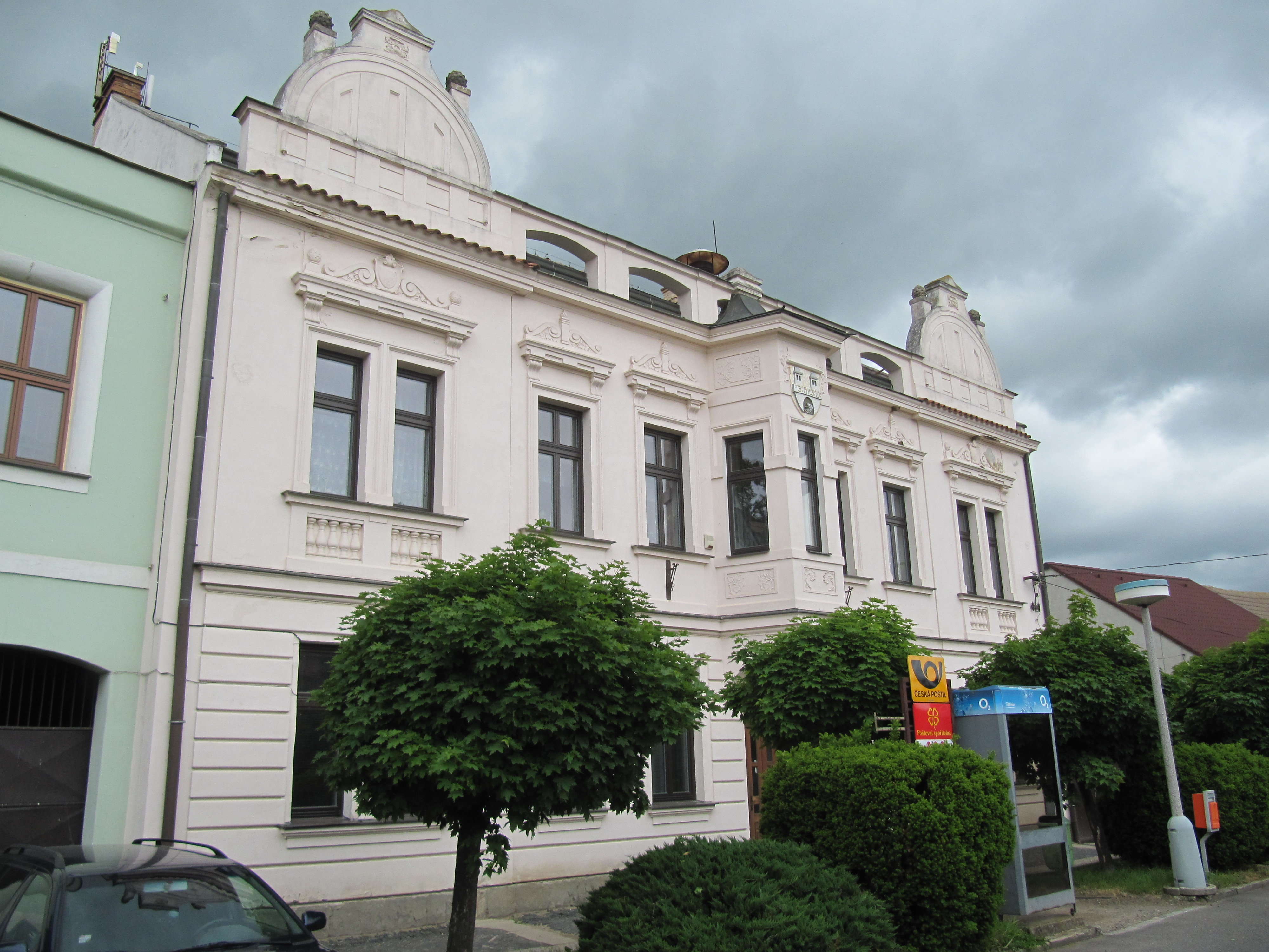 Nové Dvory, Kutná Hora District, Czech Republic.